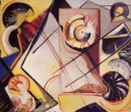 Katherine Sophie Dreier, The Garden, 1918